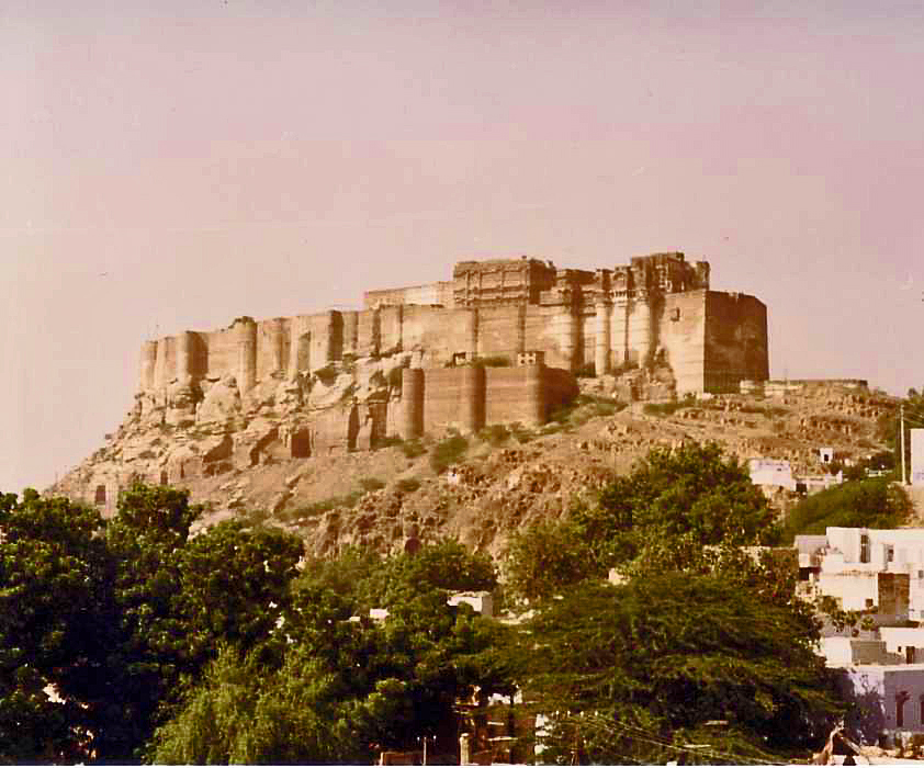 Mehrangarh Fort in Jodhpur, in the Indian state of Rajasthan. I took this photo myself in 1994